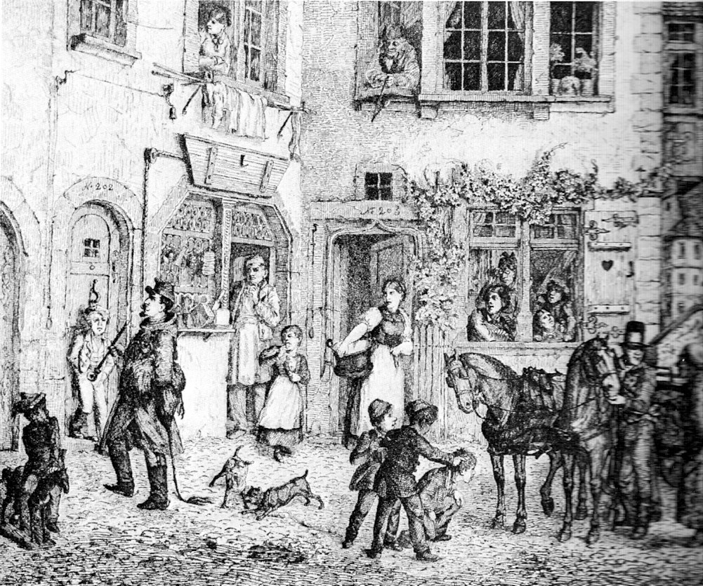 The officer from Algiers returning home